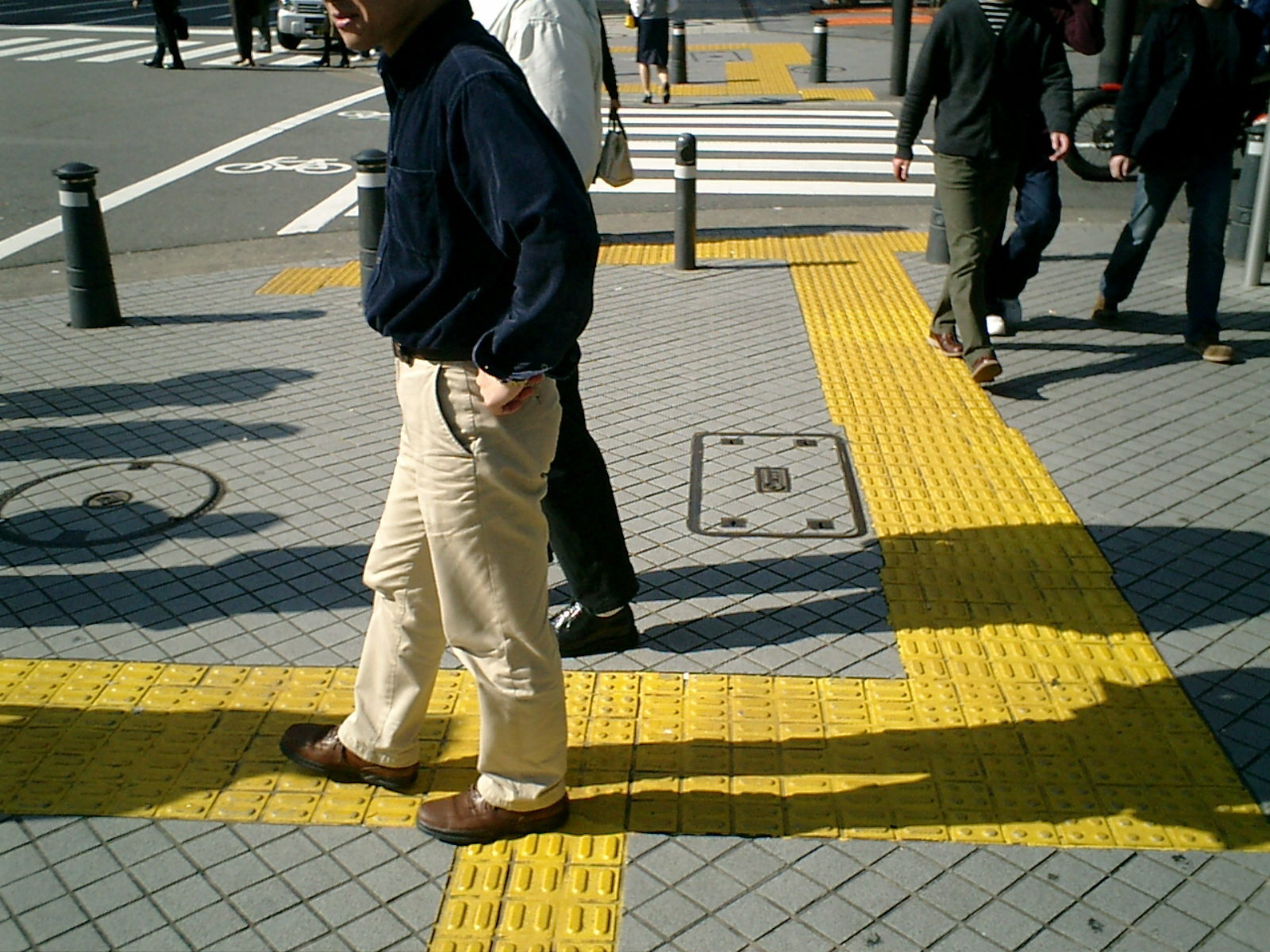 Floor marking for blind people, Tokyo, Japan